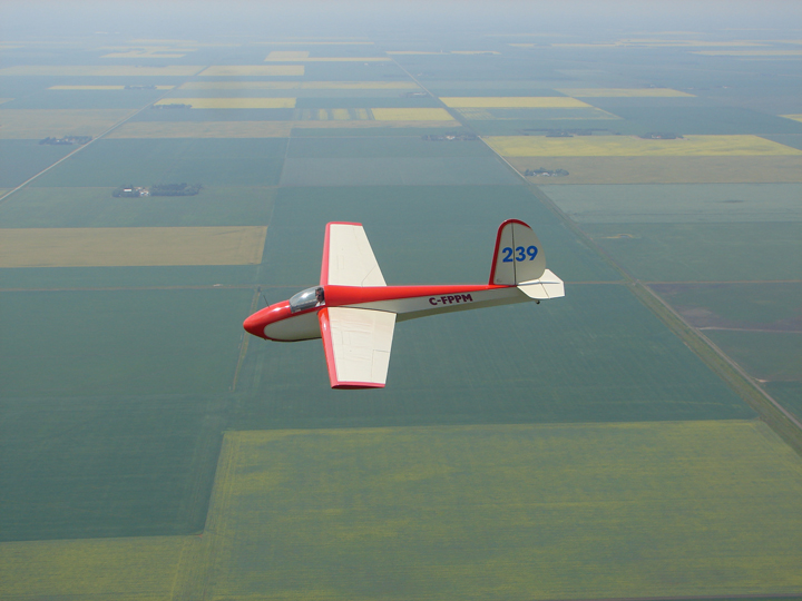 Schweizer SGS 1-26 B sailplane (C-FPPM), airborne. Over the checkerboard fields of the prairies, thermals are the only source of lift.